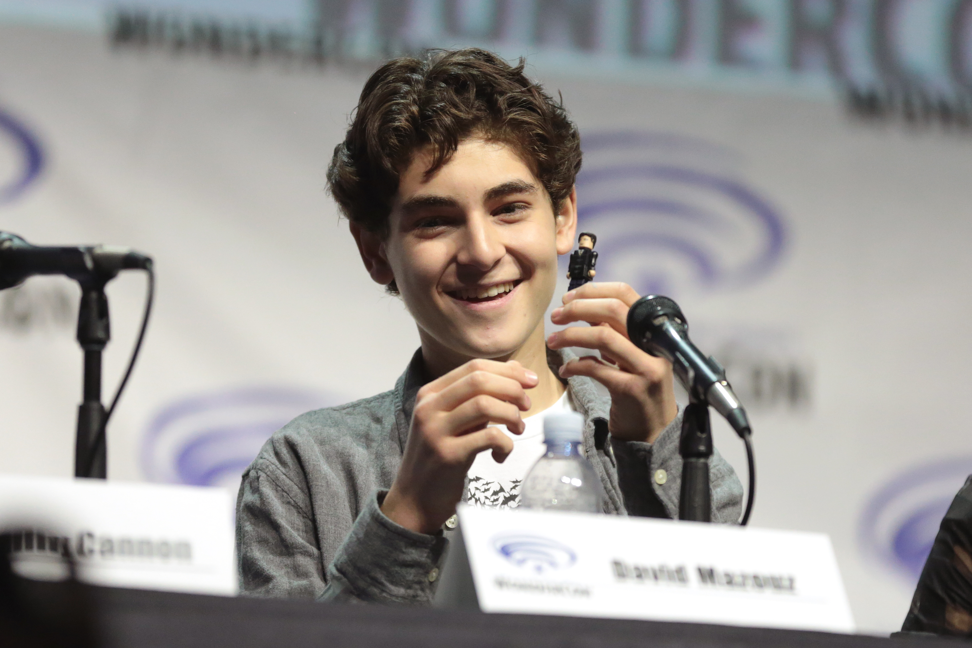 David Mazouz speaking at the 2017 WonderCon, for "Gotham", at the Anaheim Convention Center in Anaheim, California.